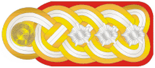 Military rang insignia of the German Democratic Republic until 1990, here: Shoulder board of the Colonel general (comparable to OF-8 NATO) Weapon colour: scarlet to – National People´s Army, Land forces GDR Civil defence Ministry of State Security of the GDR.